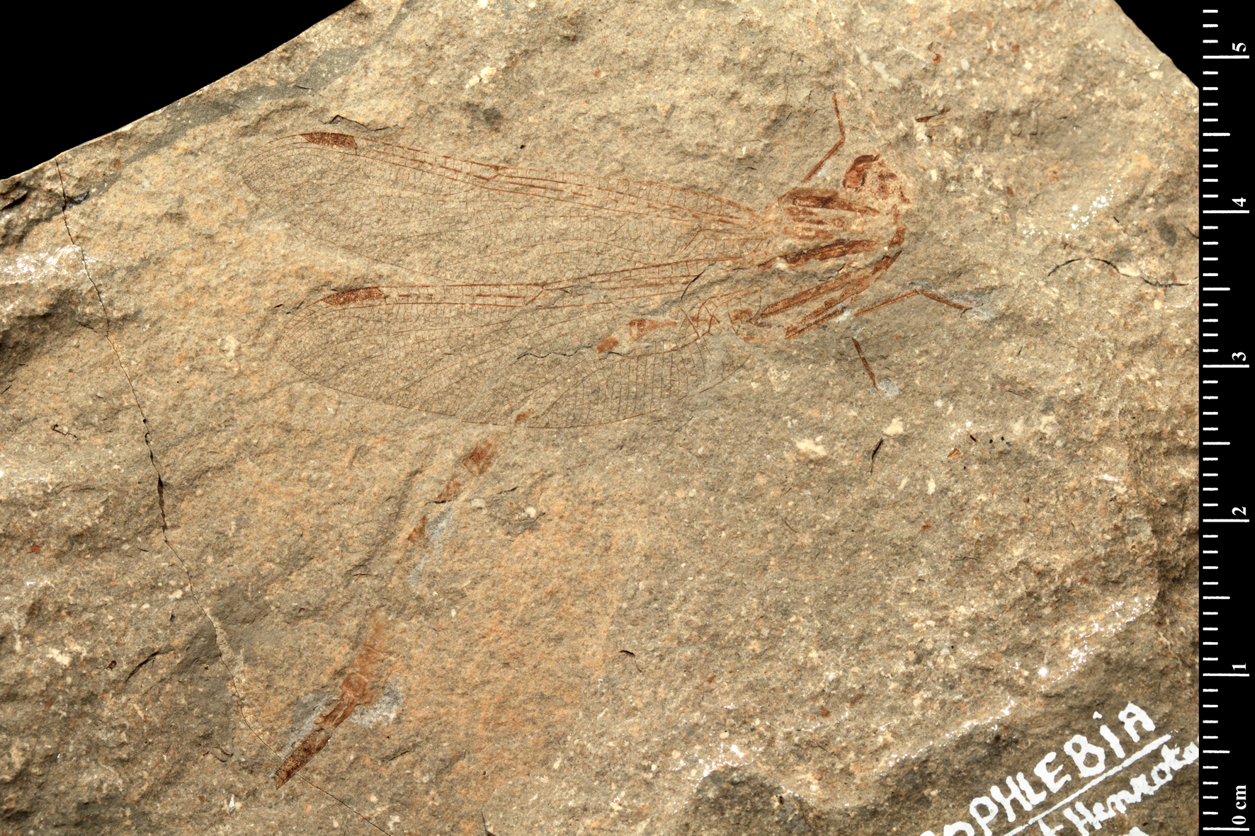 The Paraheterophlebia marcusi holotype with direct lighting, wetted with ethanol to show detail. Toarcian, Jurassic; Bascharage, Luxembourg Muséum national d'Histoire naturelle specimen MNHN.F.R10383